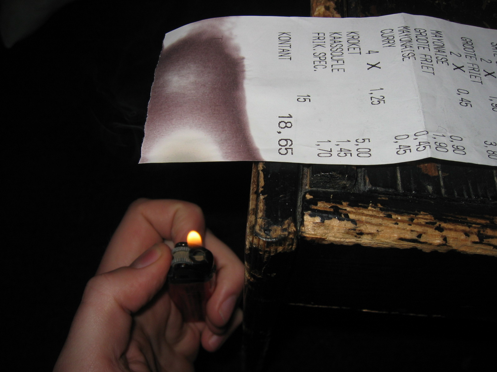 A receipt printed on thermal paper. As a demonstration of principle, a heat source (in this case, a lighter) is held near the paper, so it darkens.